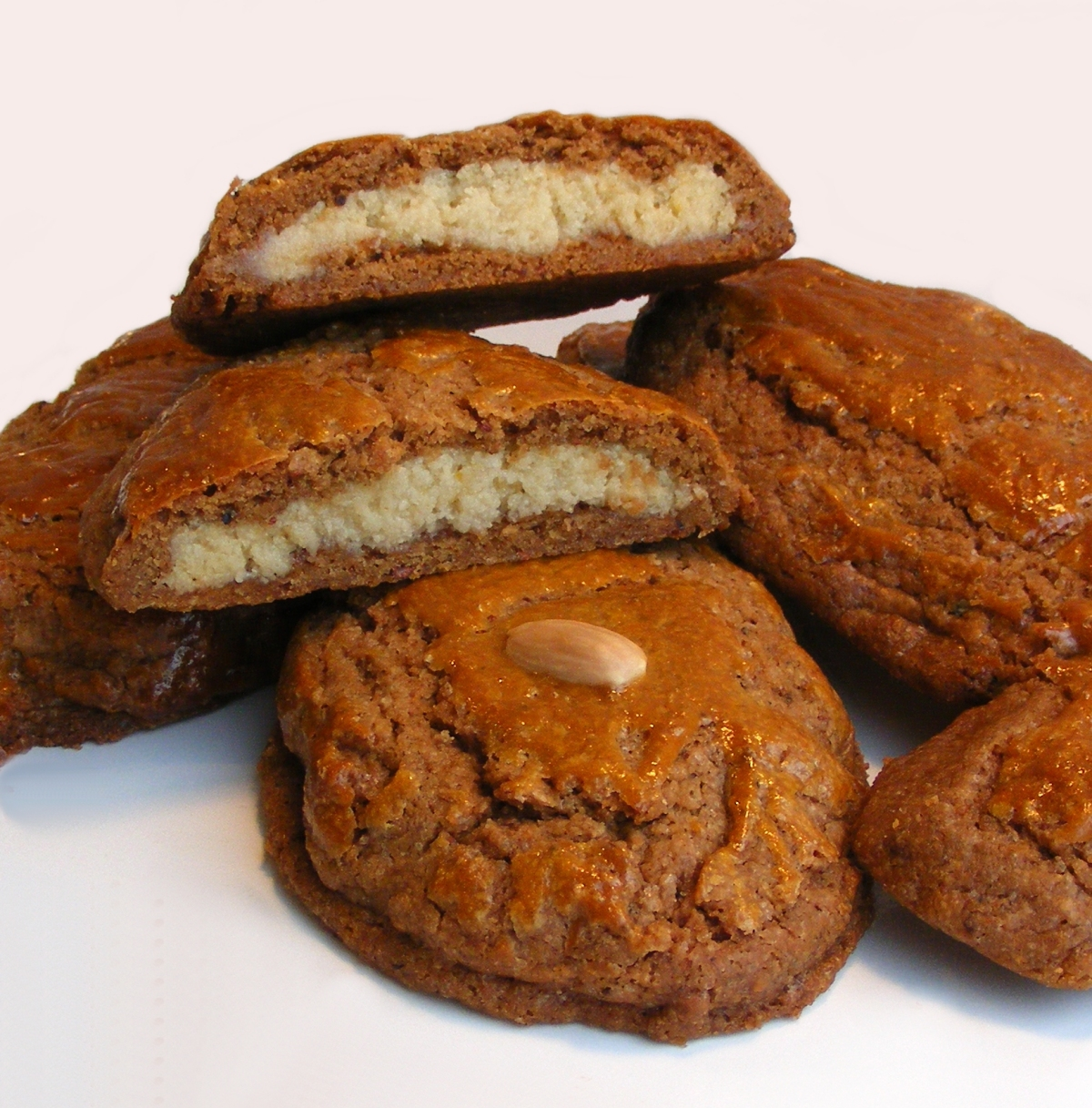 Speculaas filled with almond paste